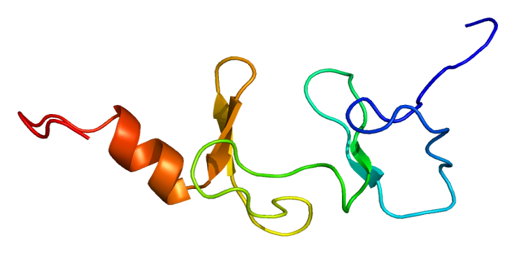 Structure of the FHL3 protein. Based on PyMOL rendering of PDB 1wyh.